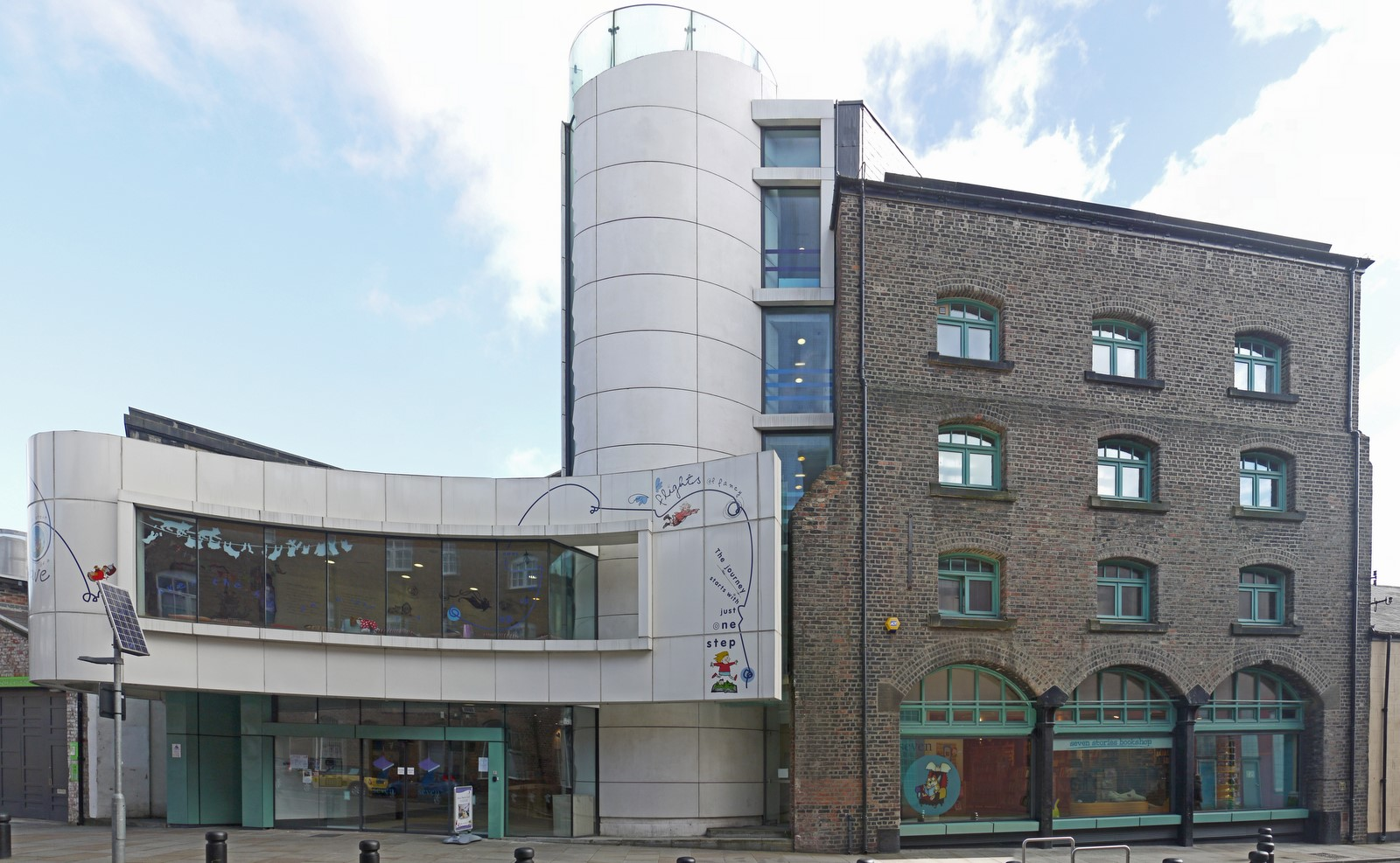 Centre for Children's Books, Lime Street. Also known as 'Seven Stories' from the warehouse which fronts on the Ouseburn 1777696. The modern extension on its left side represents the turning pages of a book. The building was converted by GWK Architects, Newcastle in 2005.